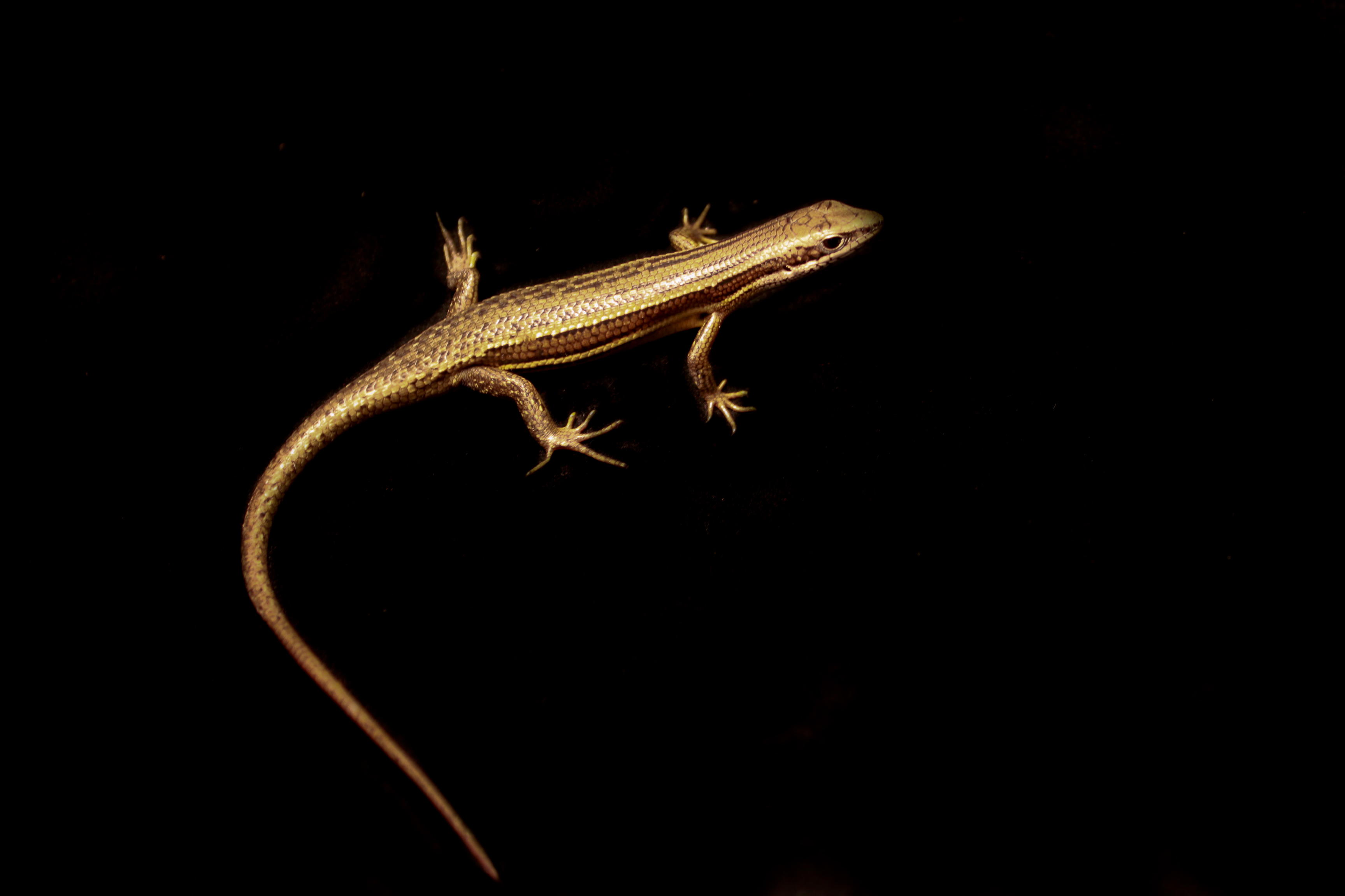 White-lipped Skink (Trachylepis albilabris). Libreville, Gabon.